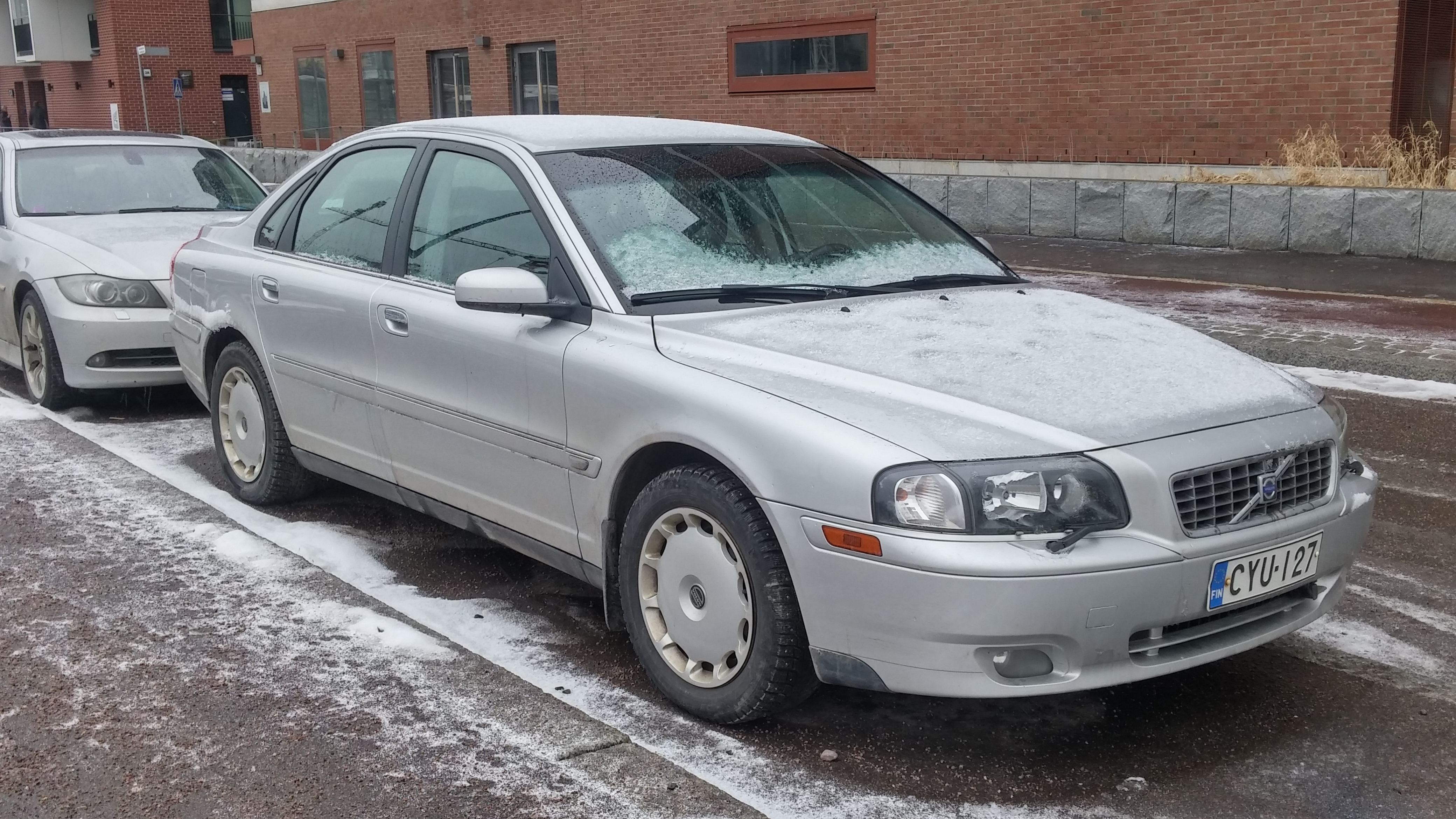 2005 Volvo S80